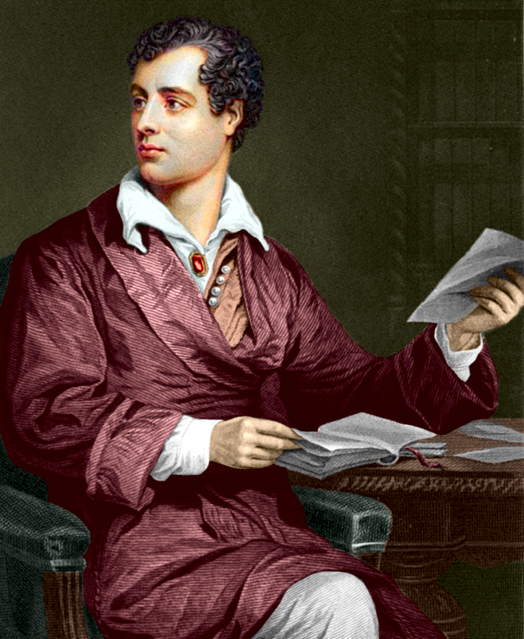 Lord Byron, a coloured engraving